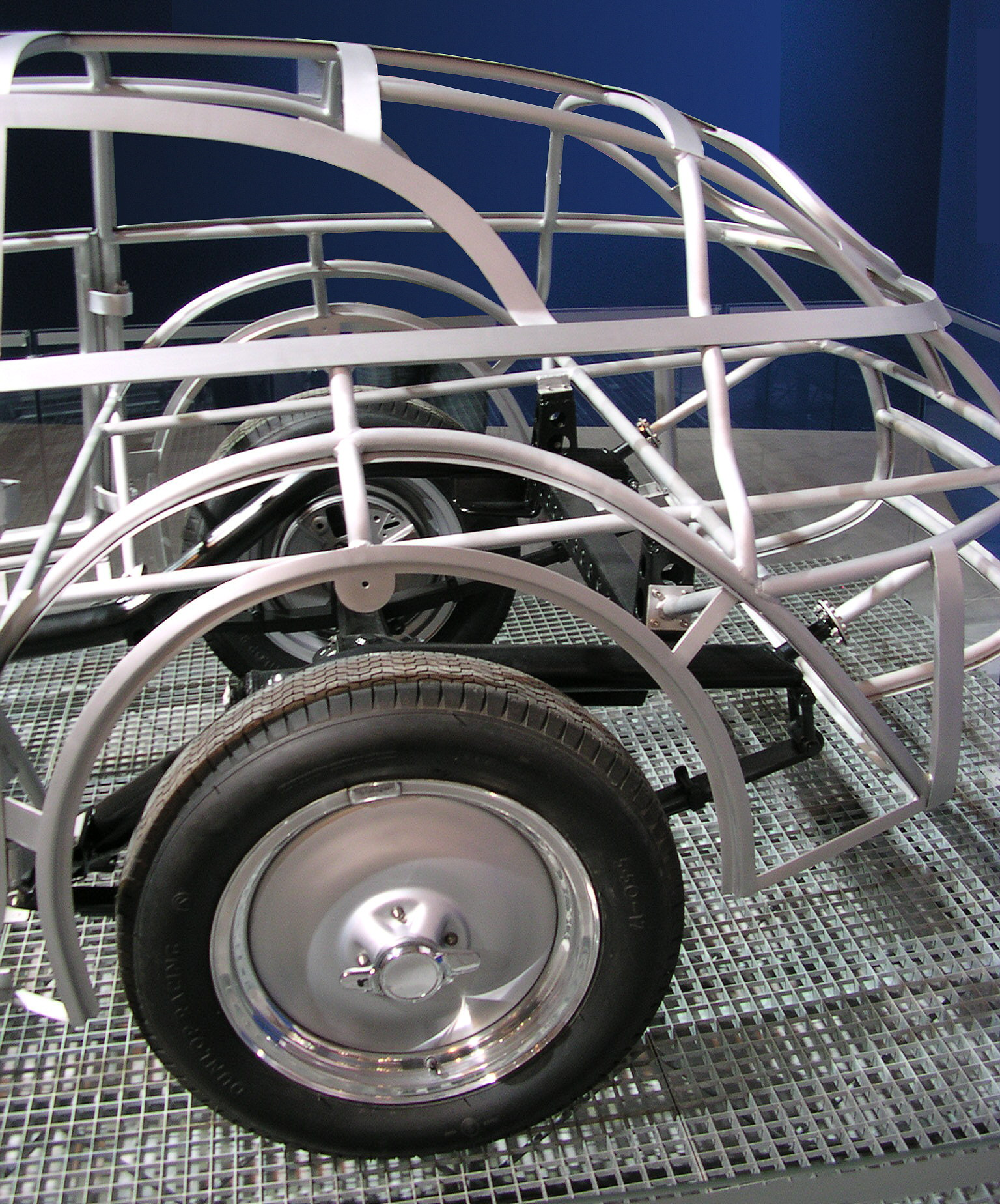 Essen Techno-Classica 2007, BMW 328 replica